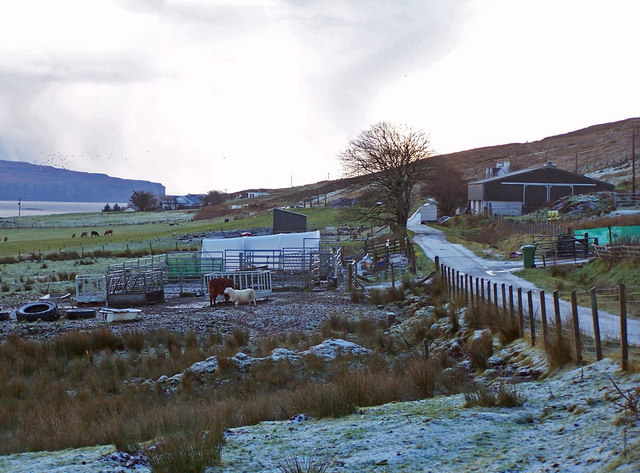 Crofts in Upper Feorlig